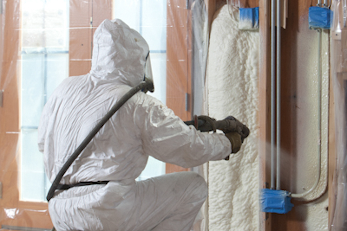 Trained Spray Foam Applicator Applying Open Cell Foam.